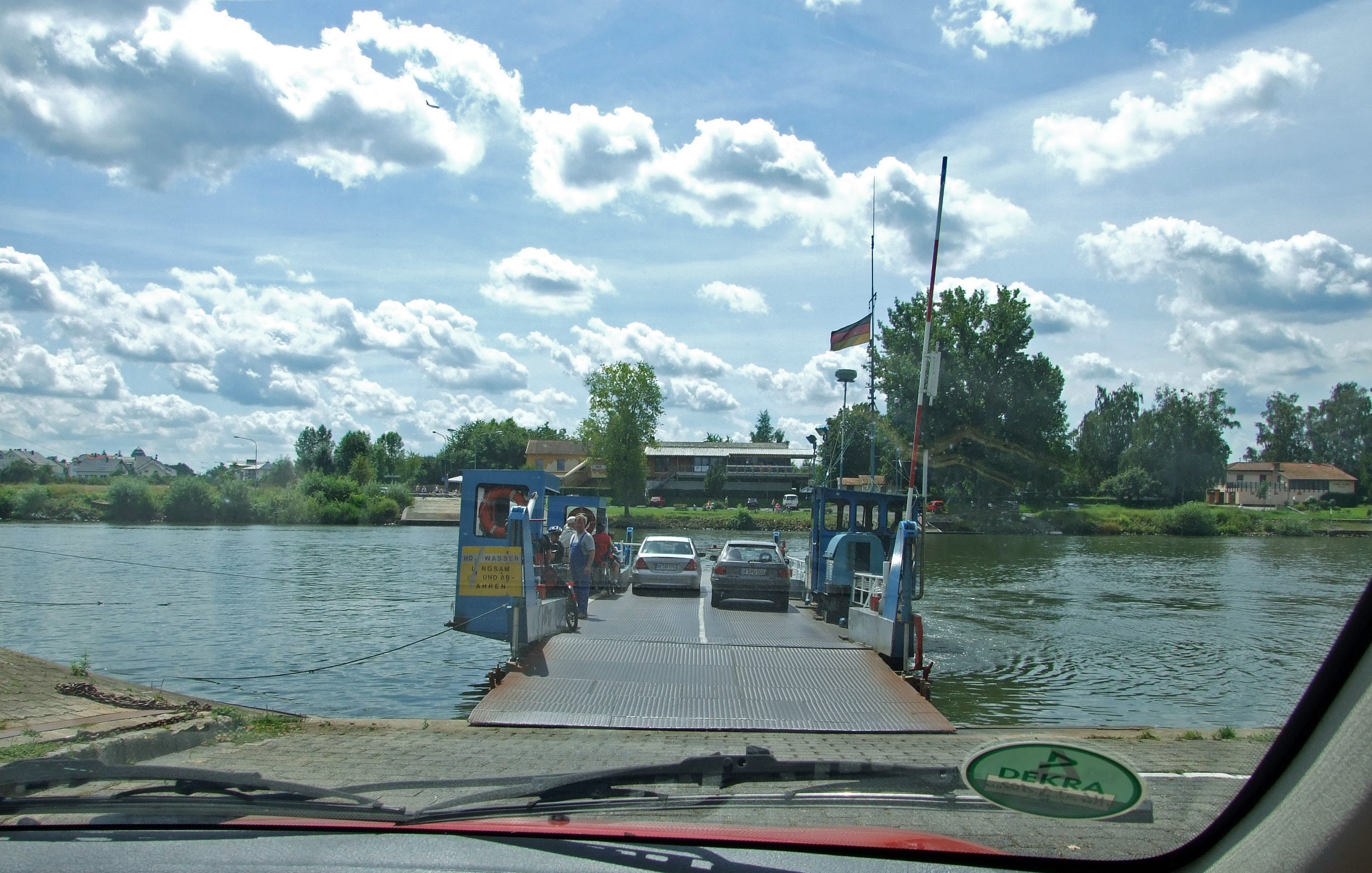 Ferry on the bank of "Maintal-Doernigheim" at "Main"-river